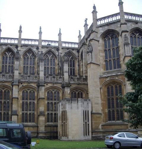 King George VI memorial chapel The King George VI memorial chapel was added to St. George's Chapel, Windsor Castle by the architect George Pace. It is the resting place of King George VI and Queen Elizabeth, the Queen Mother.